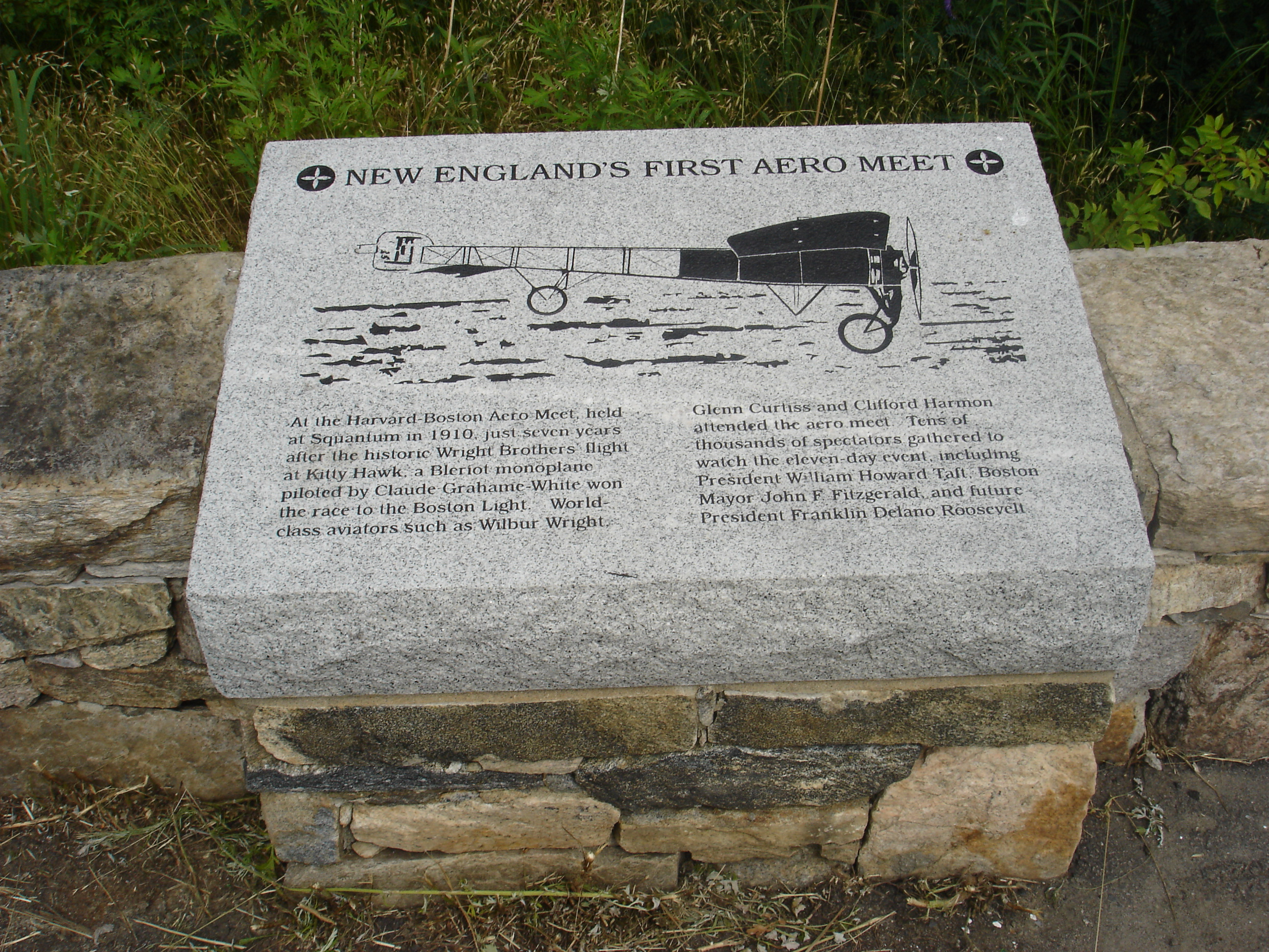 Stone tablet commemorating New England's first aero meet at the Squantum Naval Air Station, now Squantum Point Park.